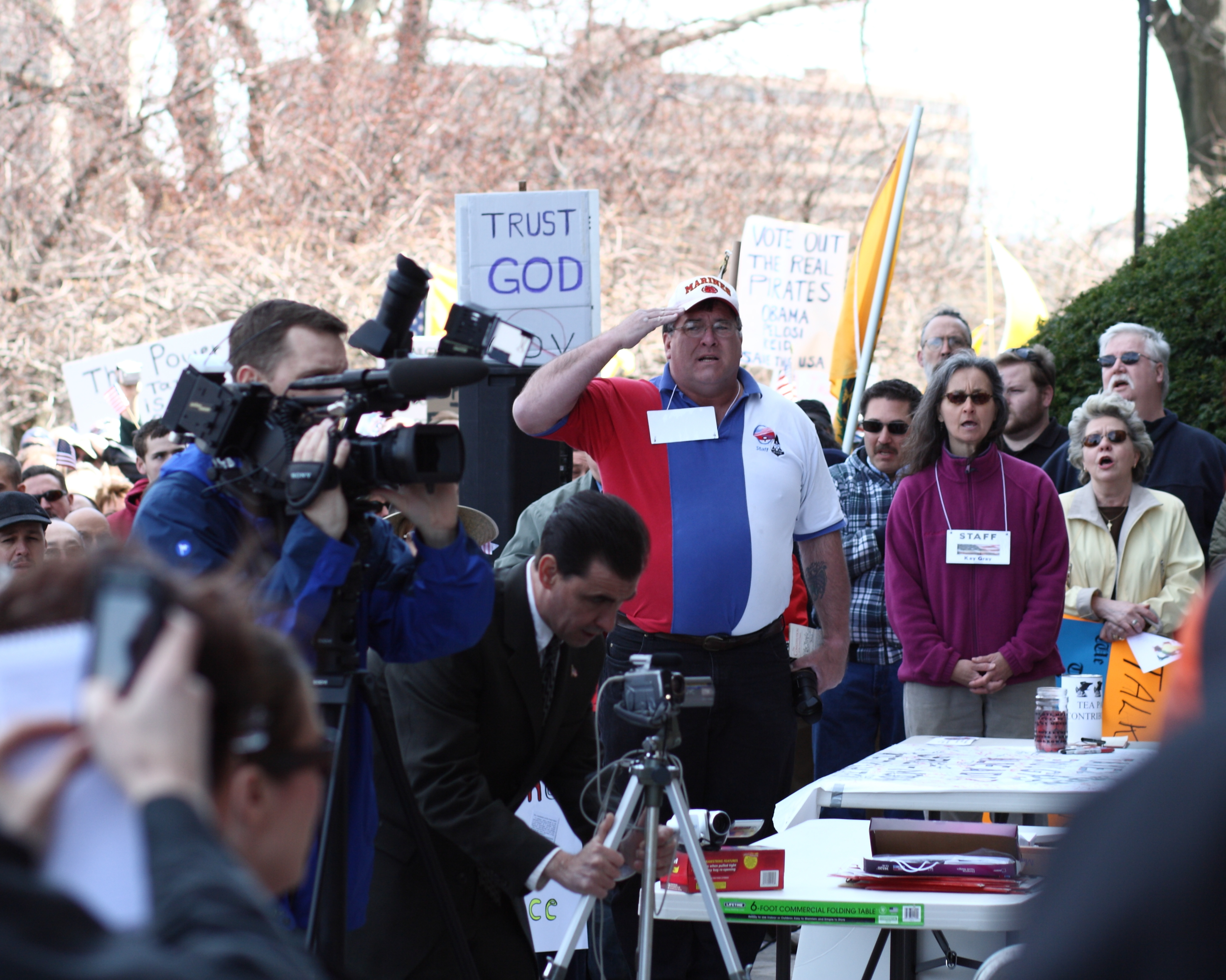 Tea Party protest at the Connecticut State Capitol in Hartford, Connecticut. The protest was scheduled for noon until 2pm local time; the timestamp of the photo is Coordinated Universal Time (UTC). Organizers reported that the police estimate of attendance was 5000 people. - OpenStreetMap(Info)